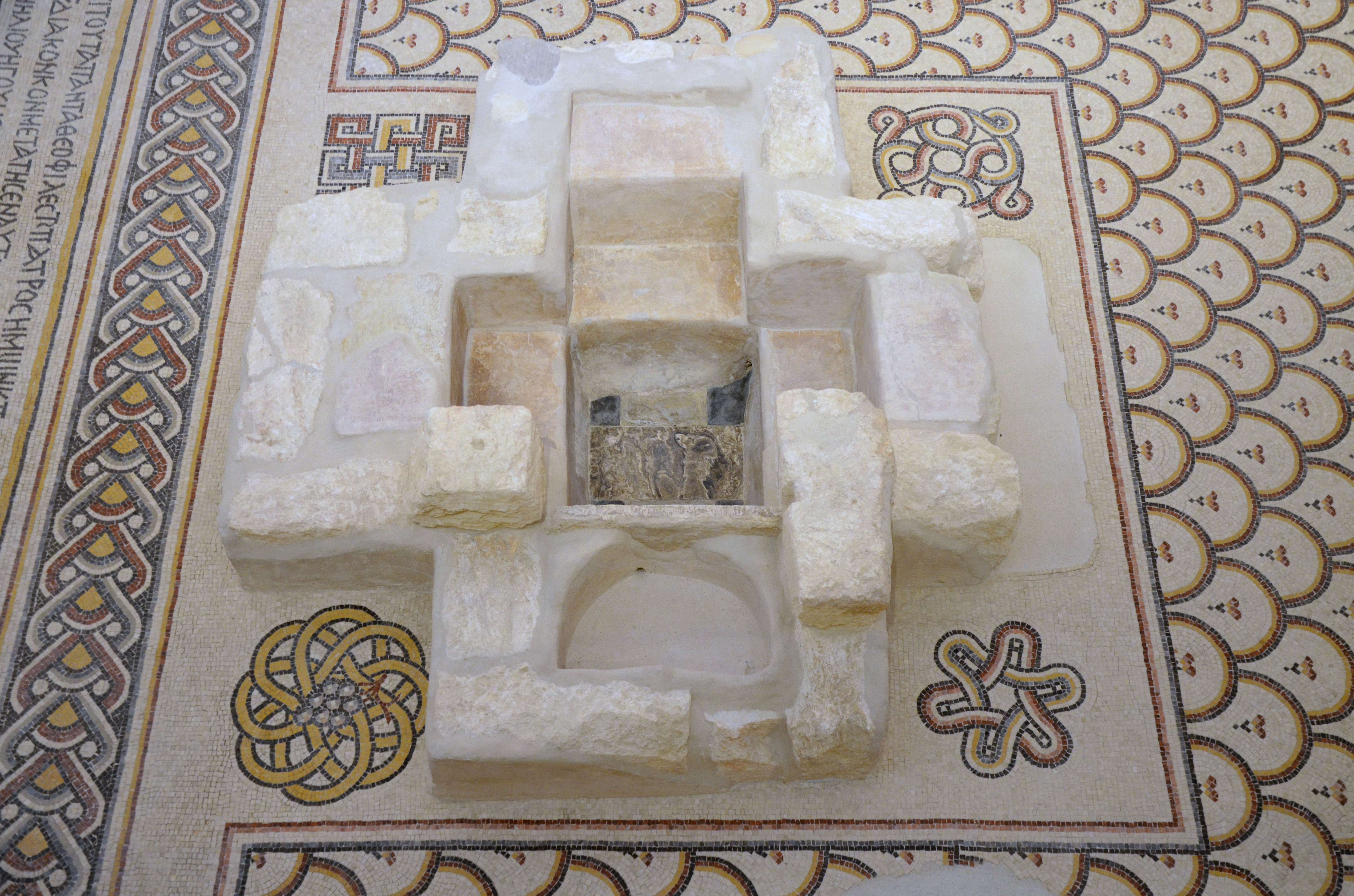 Memorial Church of Moses, Mount Nebo, Jordan